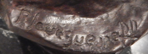 A circa 1895 signature example for French animalier sculptor Pierre-Nicolas Tourgueneff.